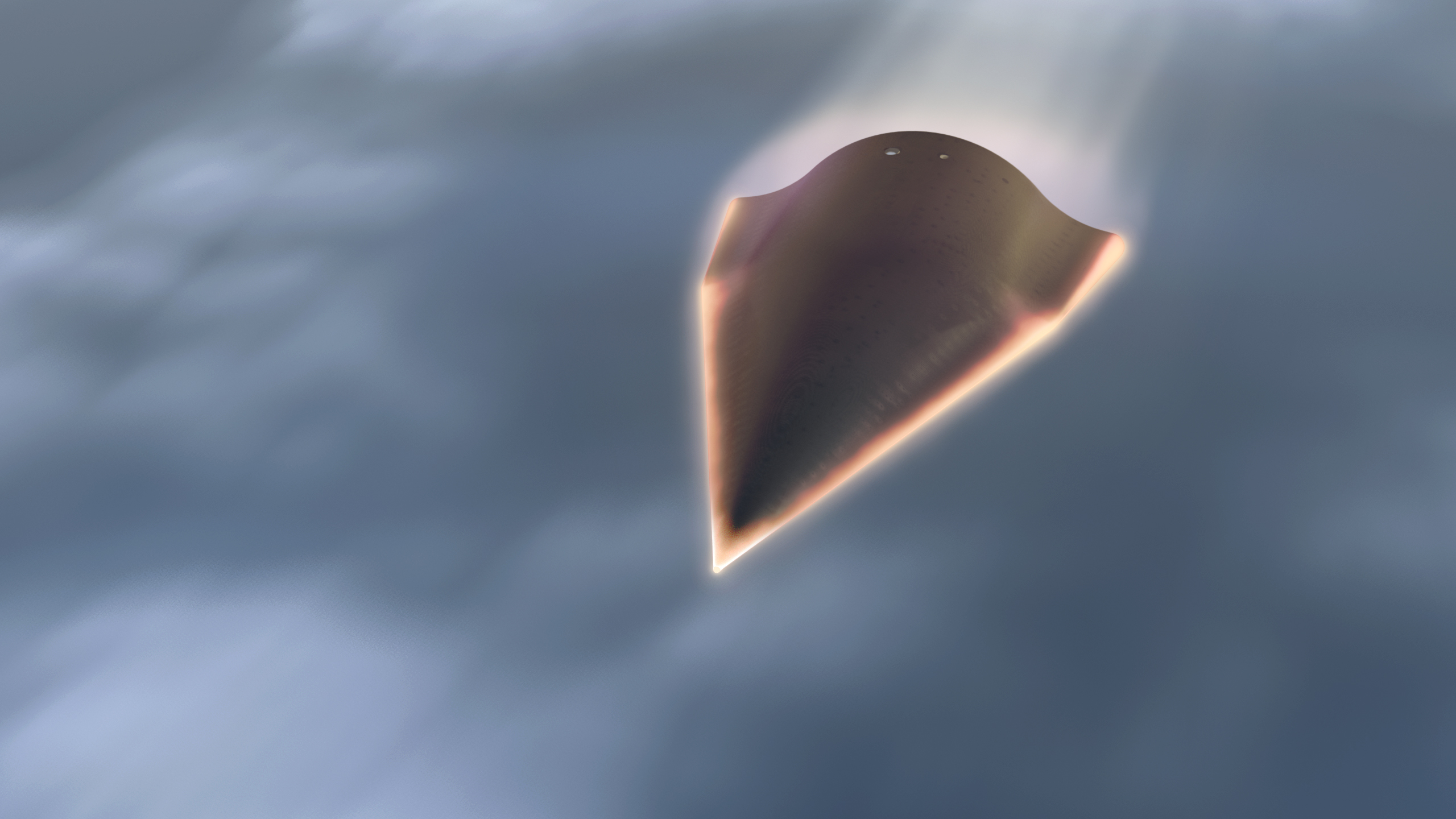 HTV-2 reenters atmosphere (artist impression)